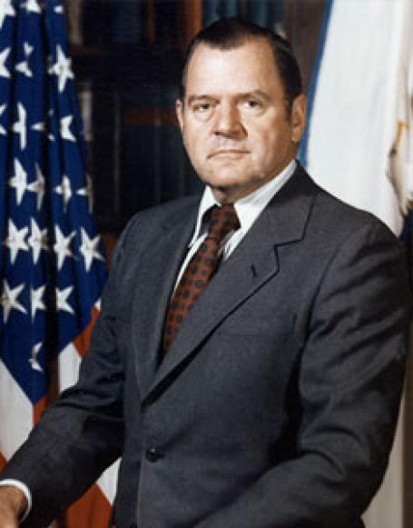 Secretary of Energy Charles Duncan, Jr. taken from